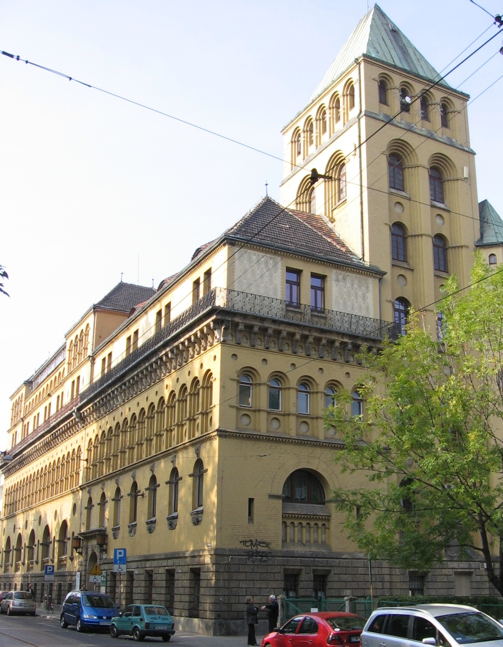 Wrocław, Poland - public bath (built 1895-97)